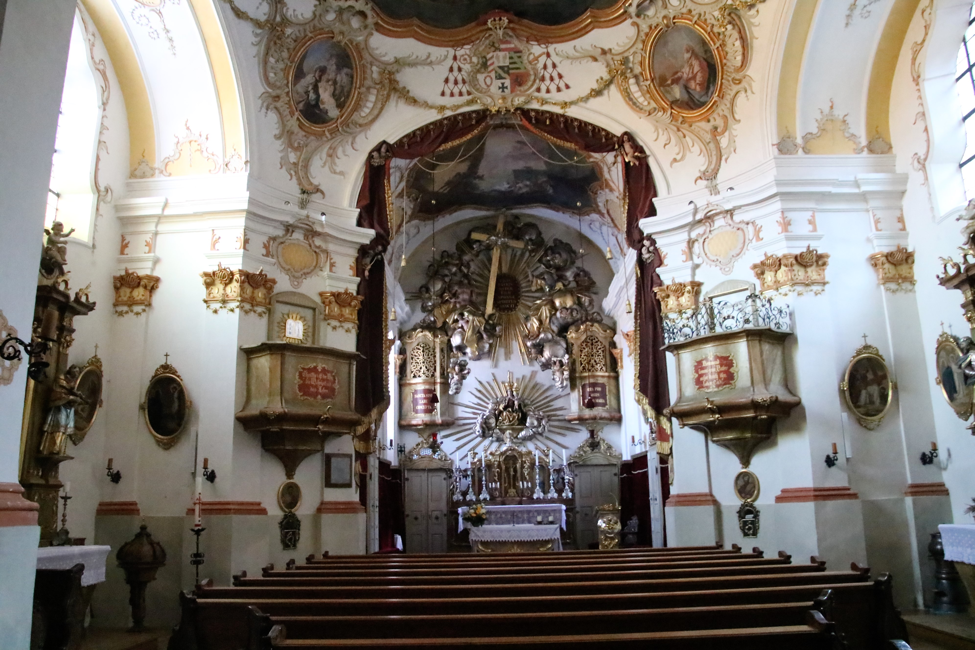 Church in Wanghausen Upper Austria